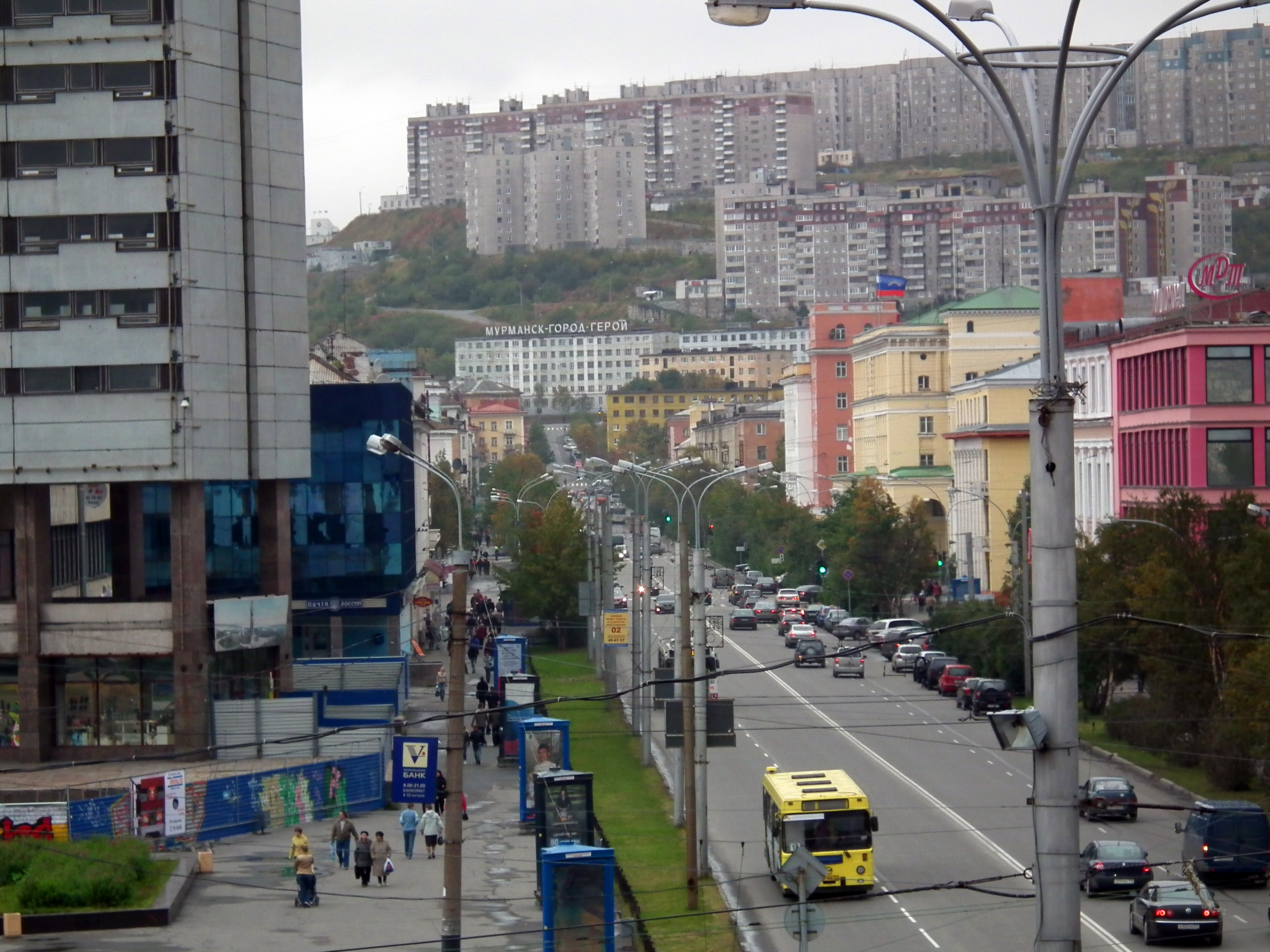 Streetview of Murmansk with apartment buildings on the ridge above the harbour.